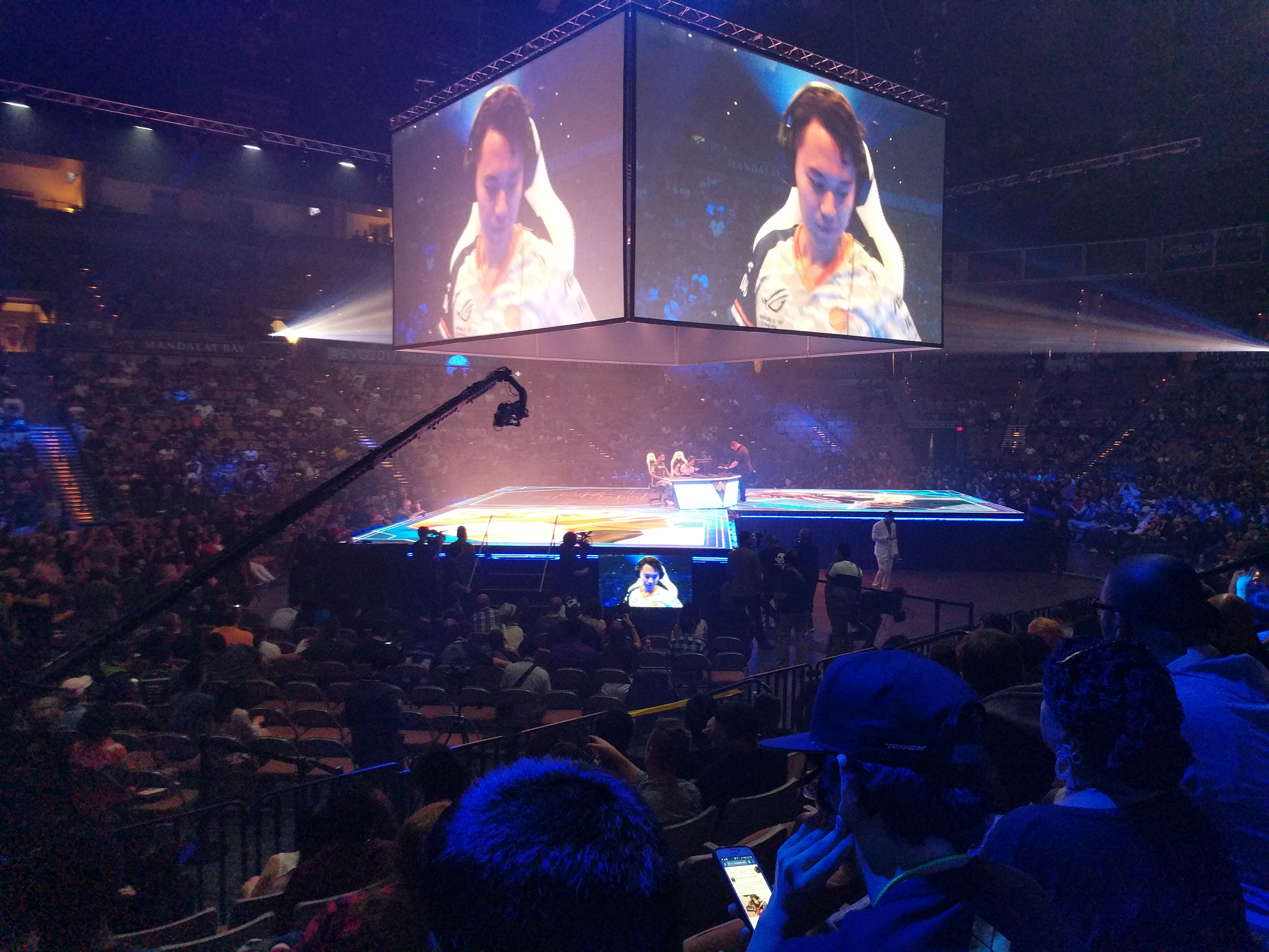 Evo 2017 at Manaday Bay Events Center, prior to Street Fighter V grand finals.